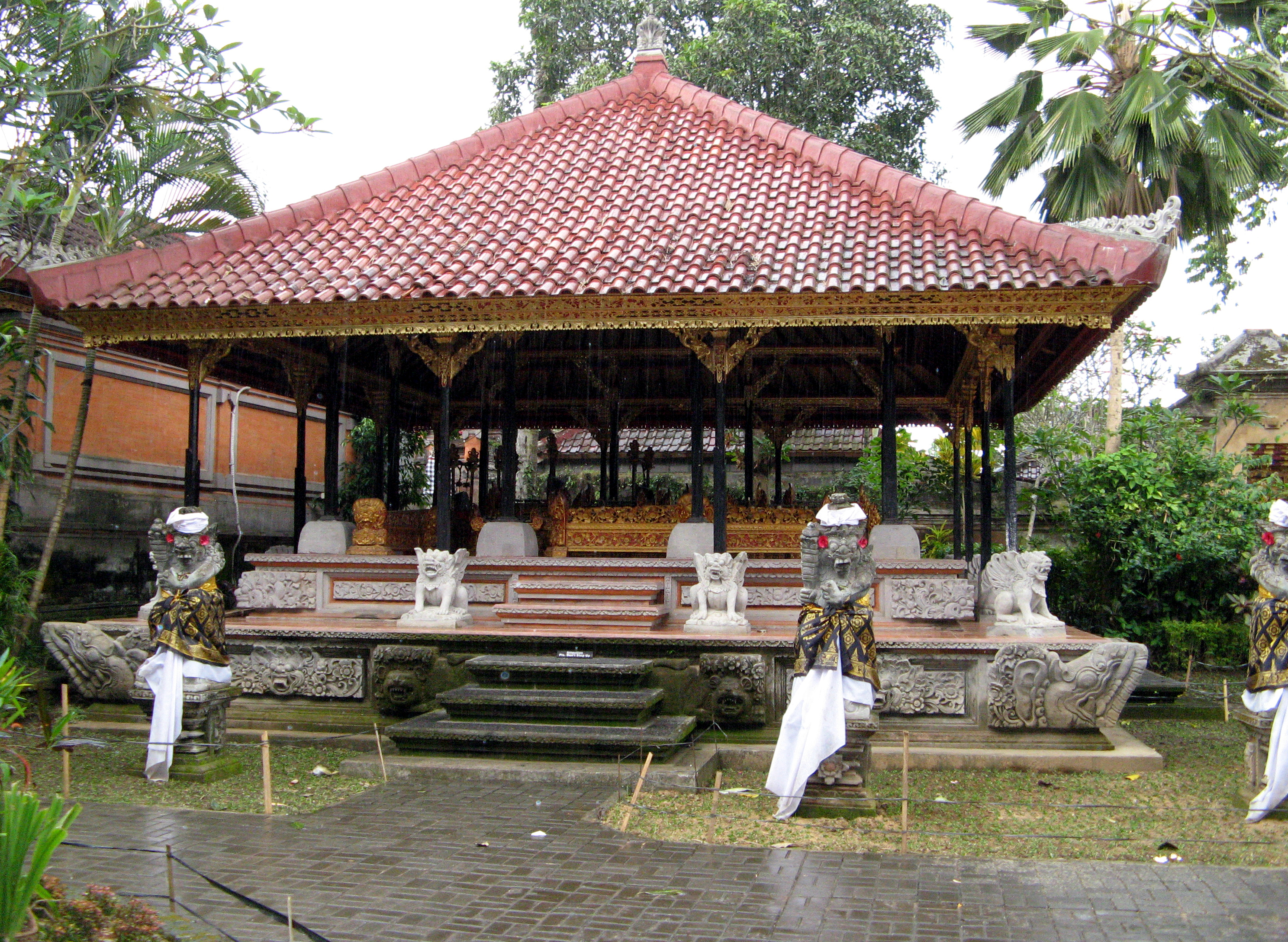 This pavilion in Puri Saren Agung is used for music and dance performances.